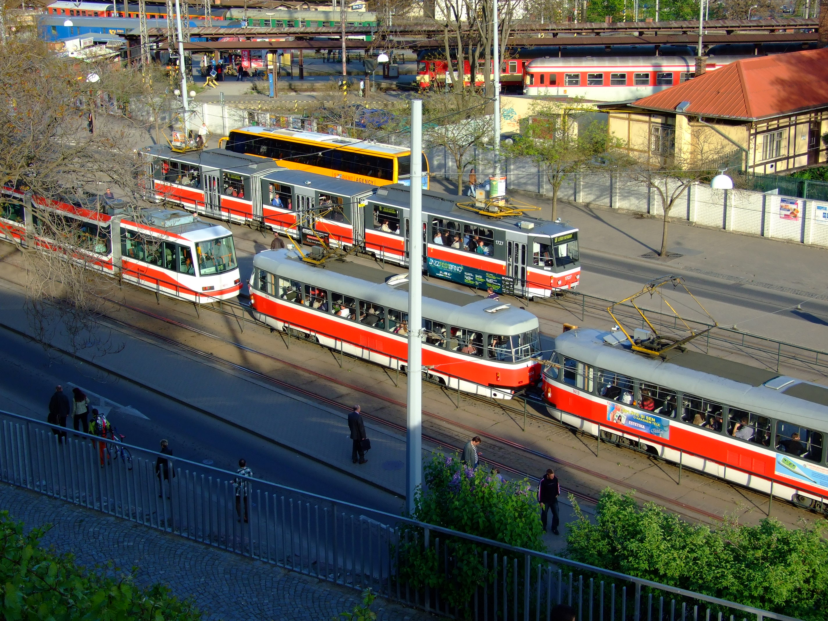 Various trams in Brno, hlavní nádraží